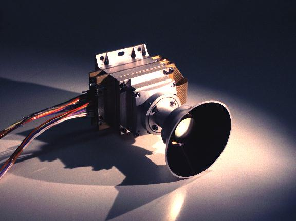 Instrument photo of the Mars Decent Imager that was incorporated into the Mars Polar Lander.